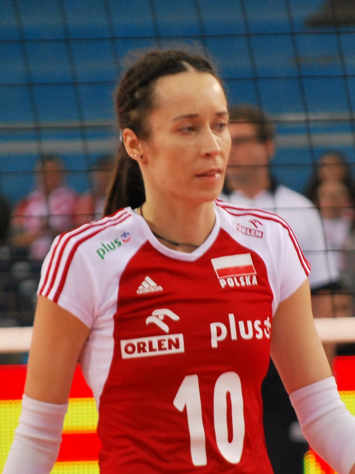 FIVB World Championship European Qualification Women Łódź January 2014. Katarzyna Mroczkowska - volleyball player from Poland